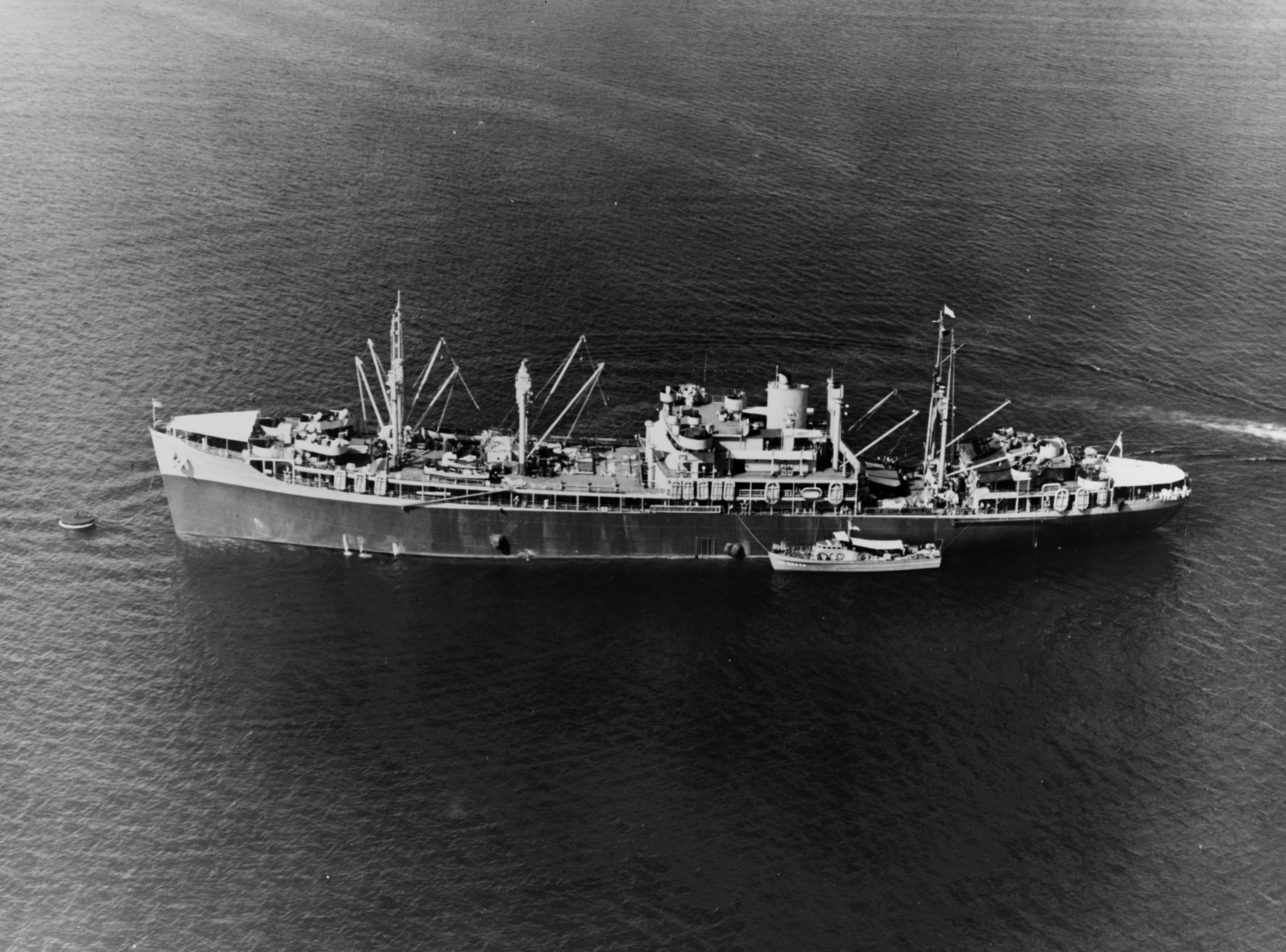 The U.S. Navy destroyer tender USS Hamul (AD-20) at anchor in Great Sound, Bermuda, on 15 July 1944, while serving as flagship of the DD-DE shakedown group (CTG-23.1). The U.S. Coast Guard Patrol Boat CG-83474 is alongside.